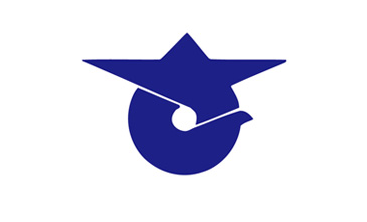 Flag of Sai Aomori